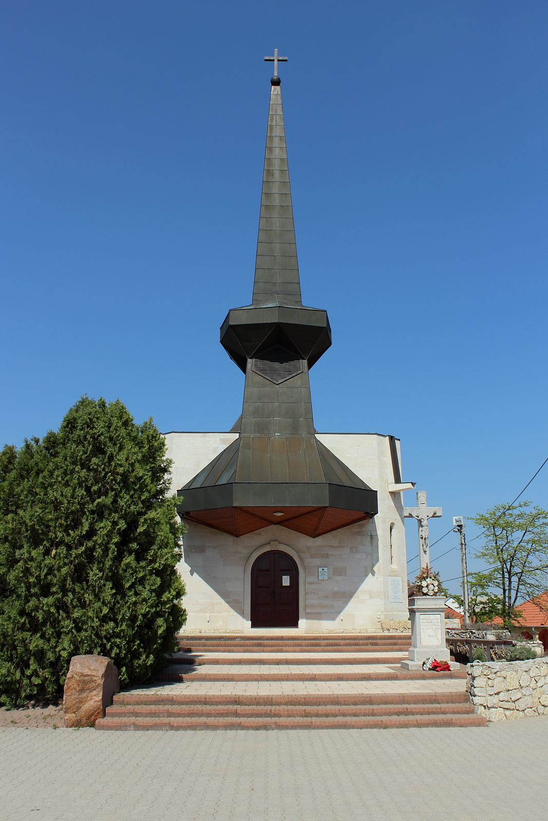 The Saint-Donatus Chapel in Székesfehérvár, Hungary.